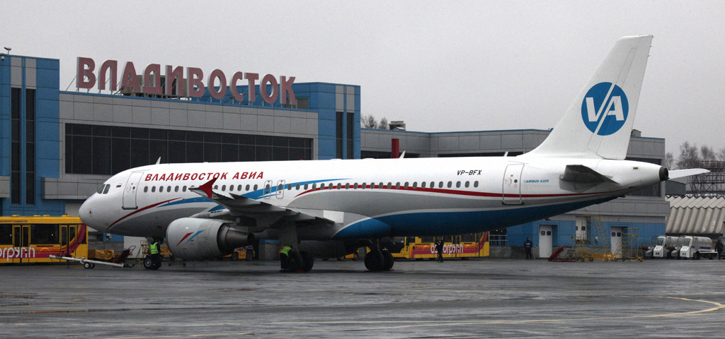 “Work at JSC Vladivostok International Airport”. Servicing a A-320 jet airliner with "Vladivostok Avia" at the international airport of Vladivostok.